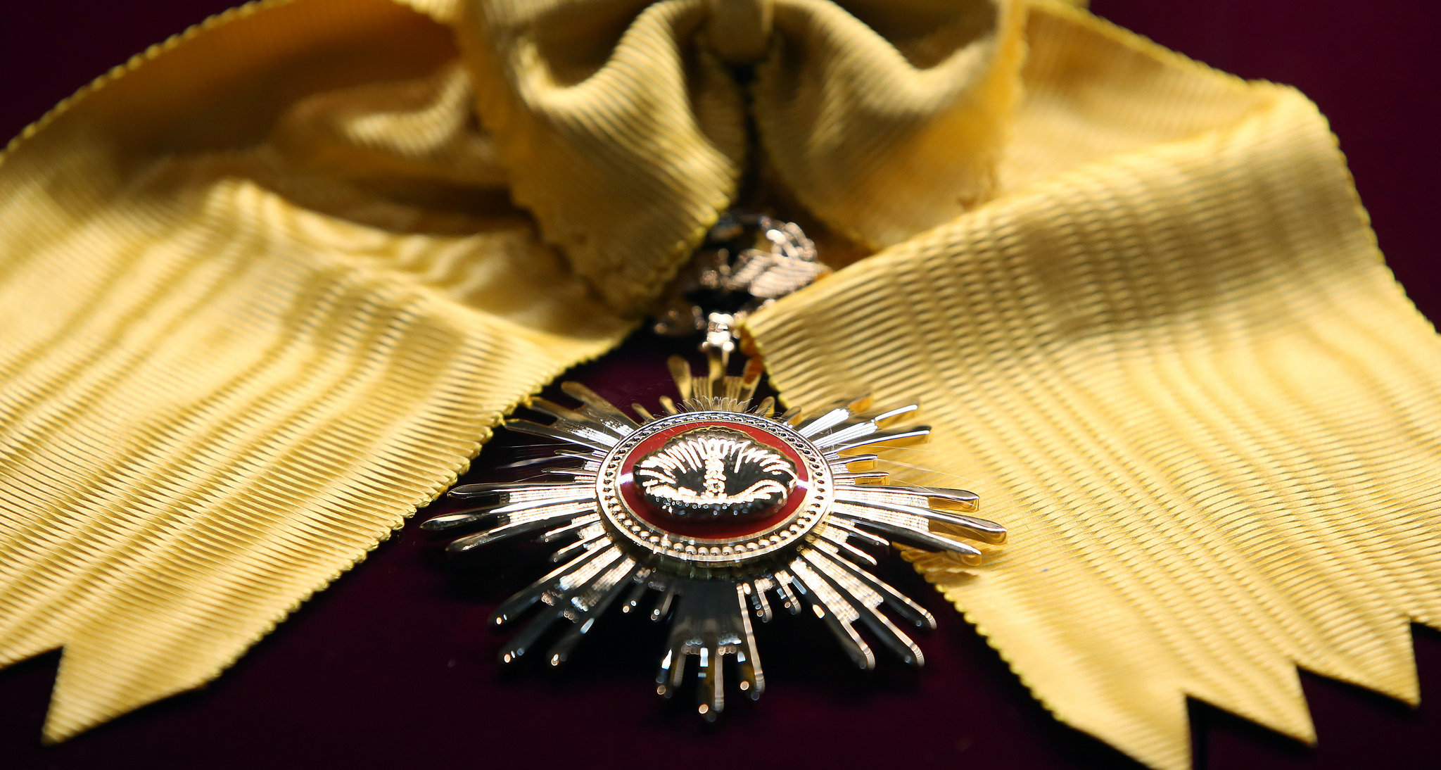 The replica of Korean Order of Civil Merit in President Archives Museum, Sejong City, South Korea